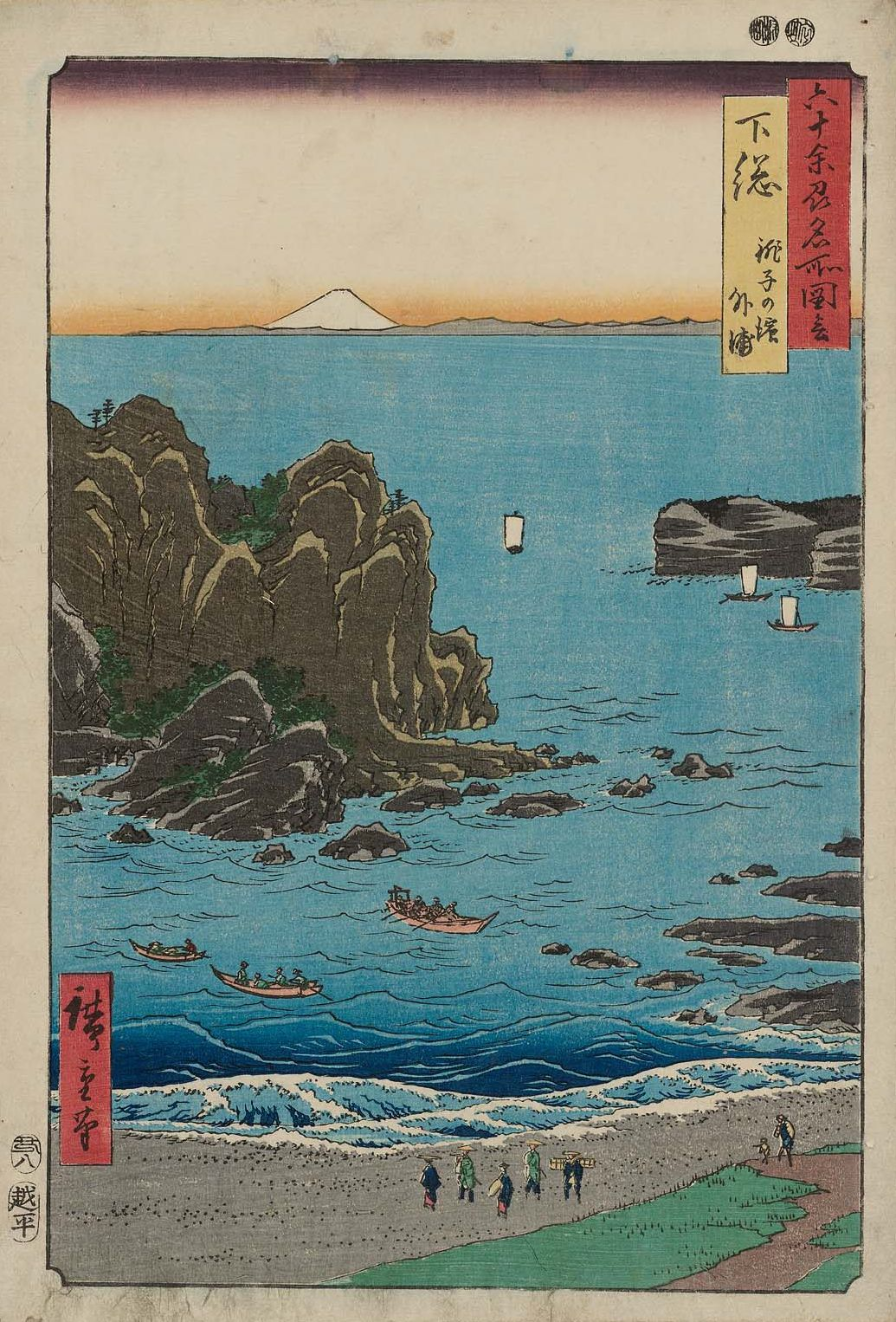 Part of the series Famous Places in the Sixty-odd Provinces, No. No. 20 (Tōkaidō group)